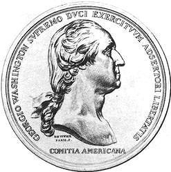 Congressional Gold Medal voted for George Washington by Second Continental Congress 25 March 1776.